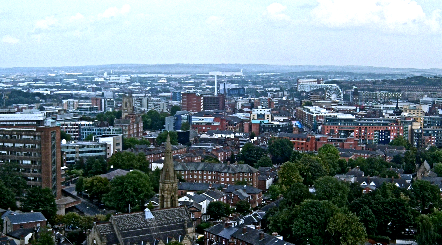 Sheffield panorama